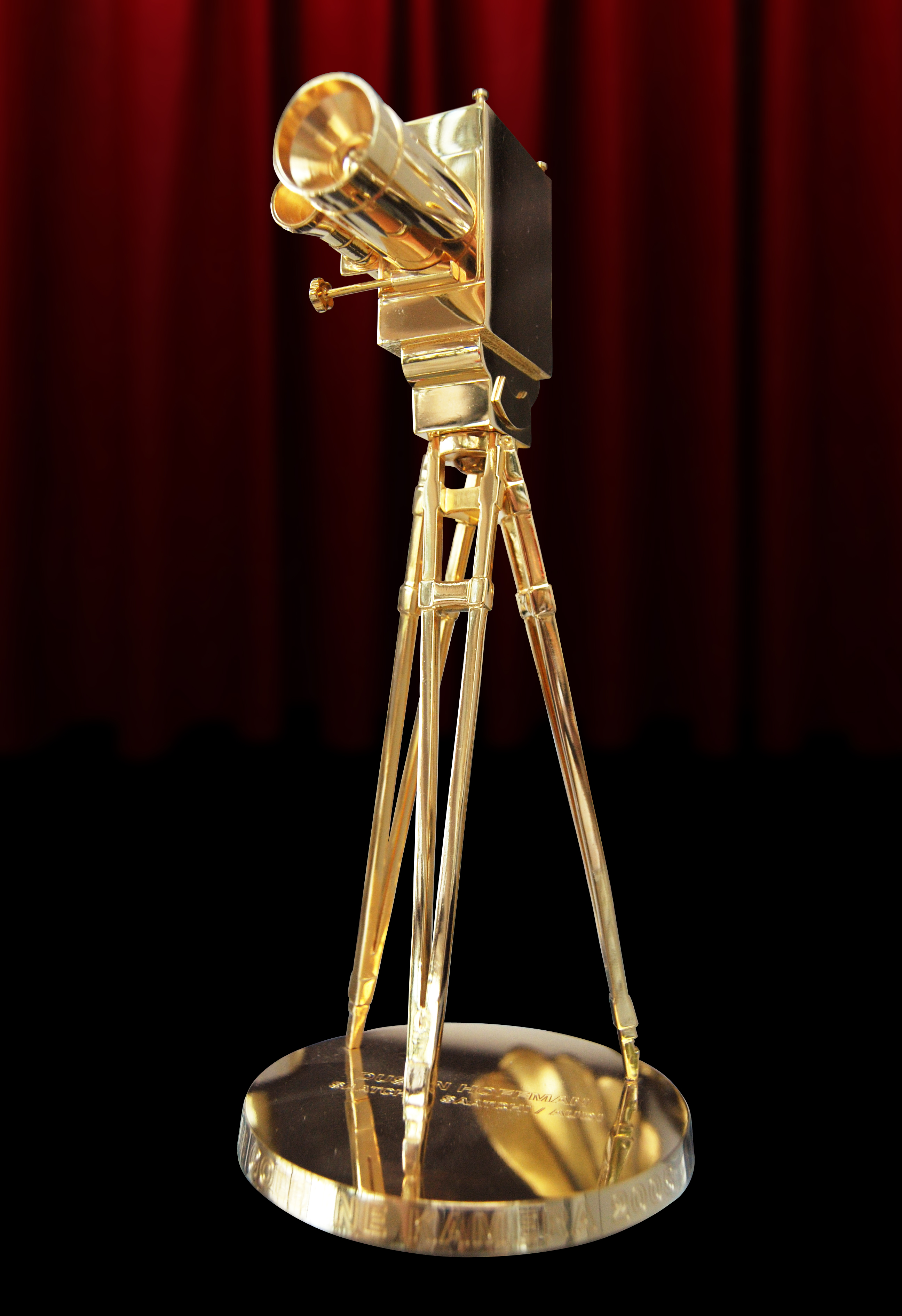 Golden Camera awarded in 2005 to Dustin Hoffman for Best Testimonial Commercial